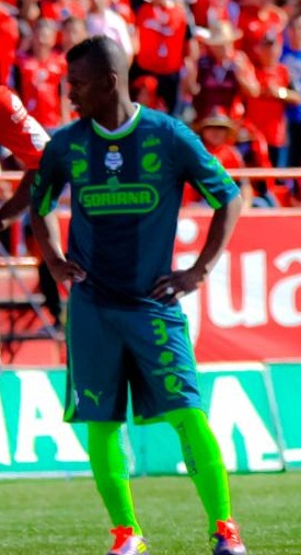 Santos player Carlos Darwin Quintero